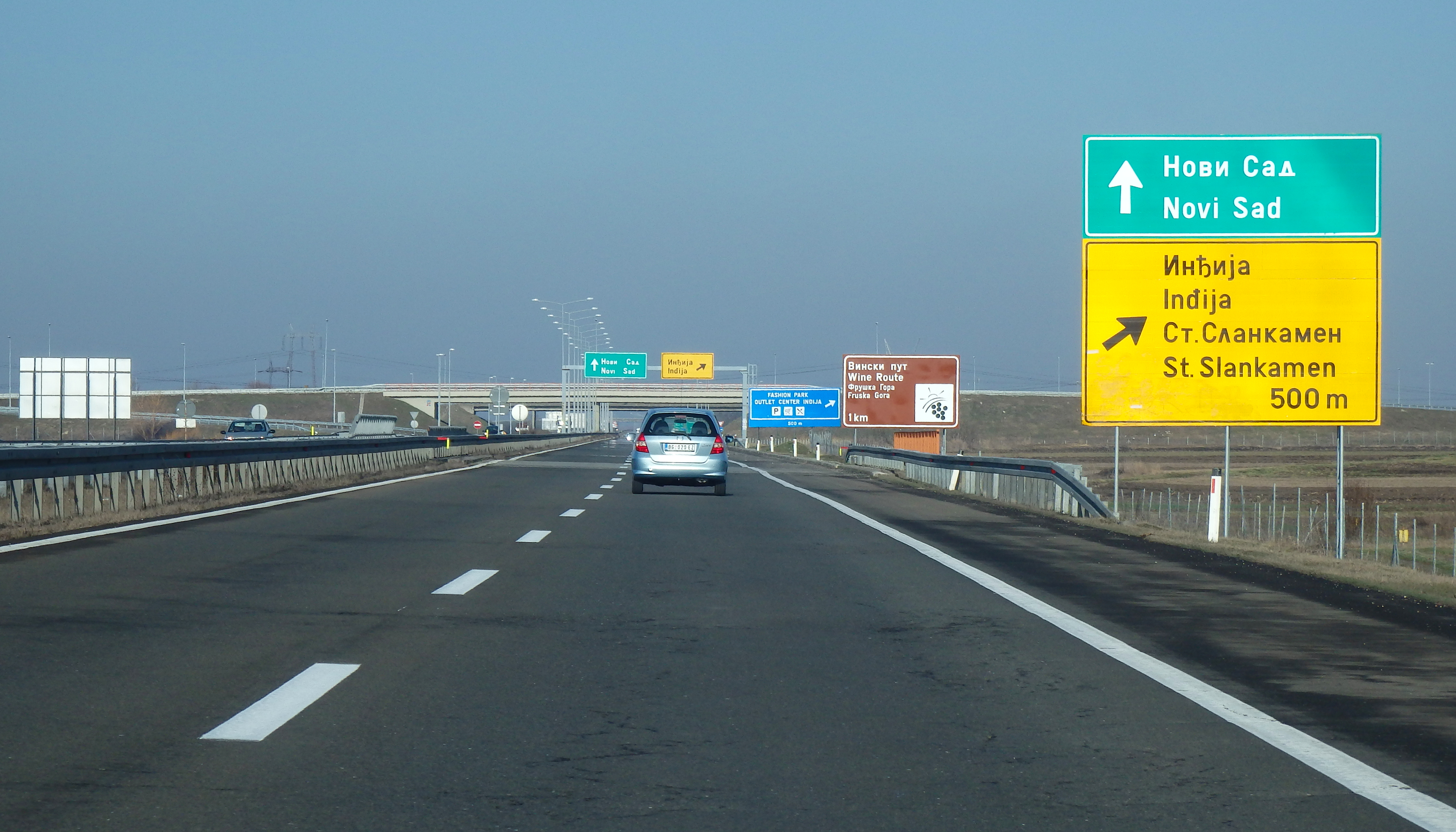 E-75 in SerbiaСрпски (ћирилица): Аутопут Е-75 у Србији.